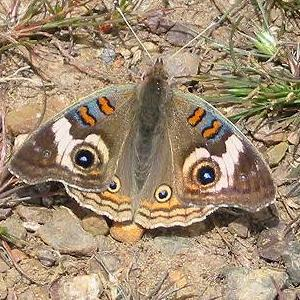 Photograph taken on 1 May 2002 by Peter Craig